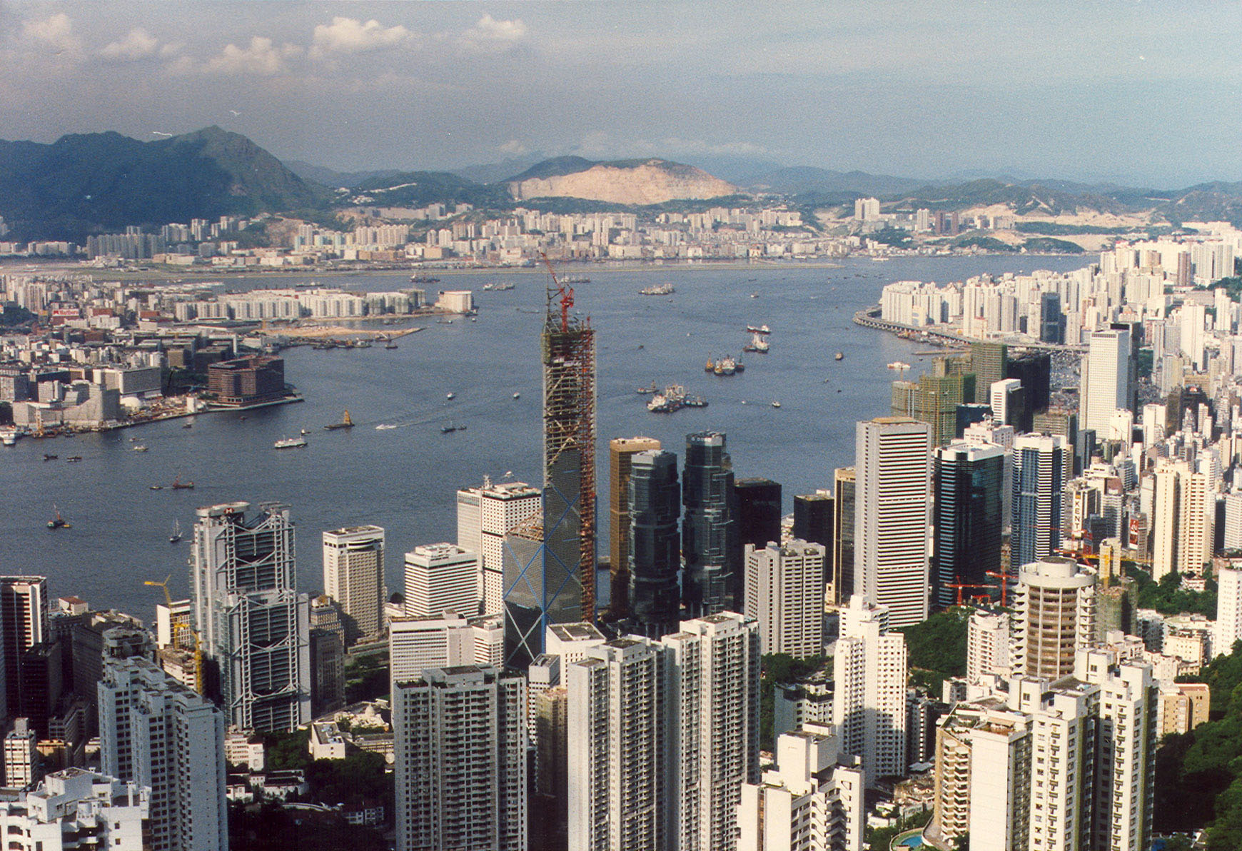 The BOCHK Bank of China Building under construction viewed from the Peak